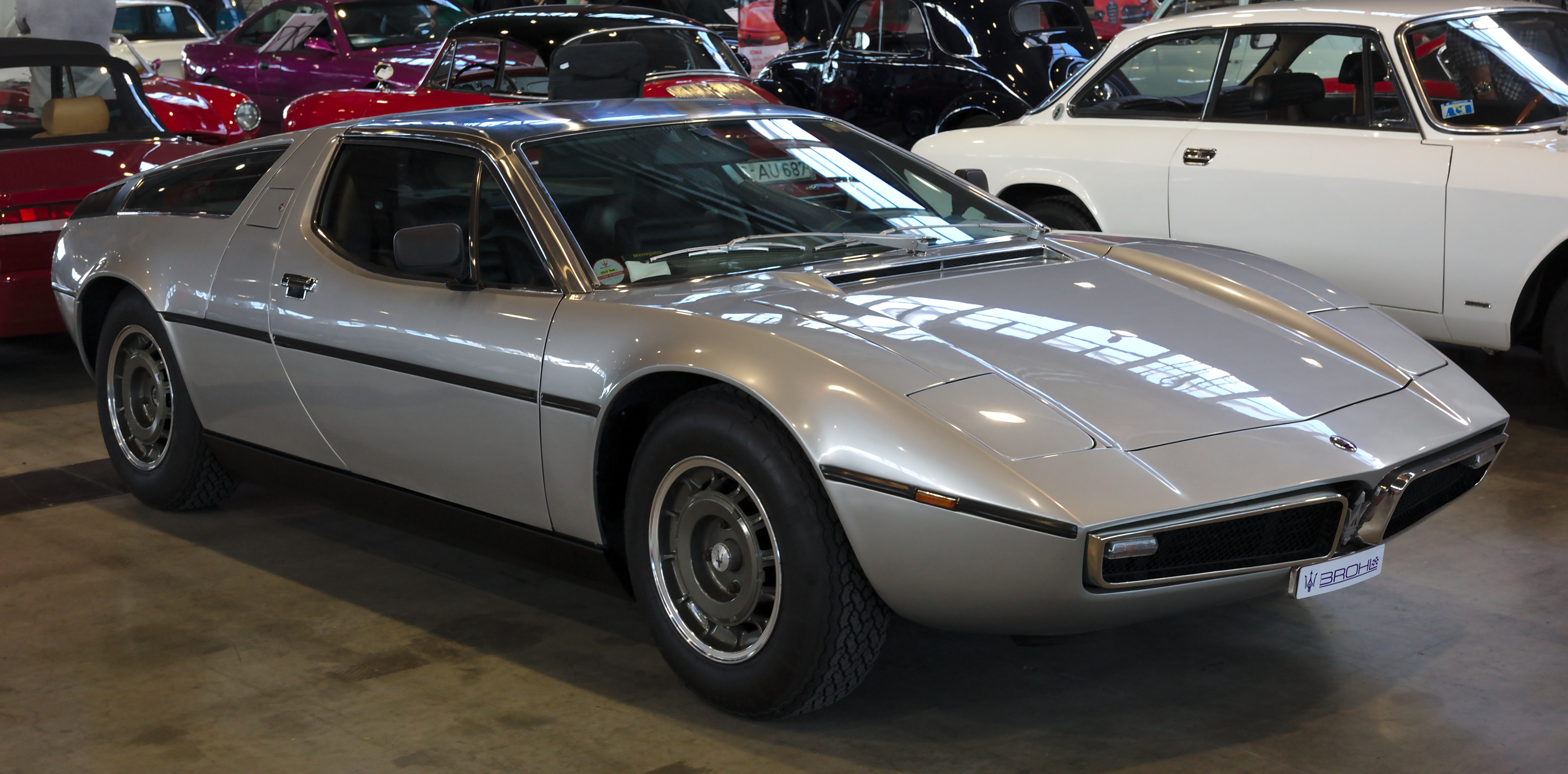 Maserati Bora at Retro Classics 2019